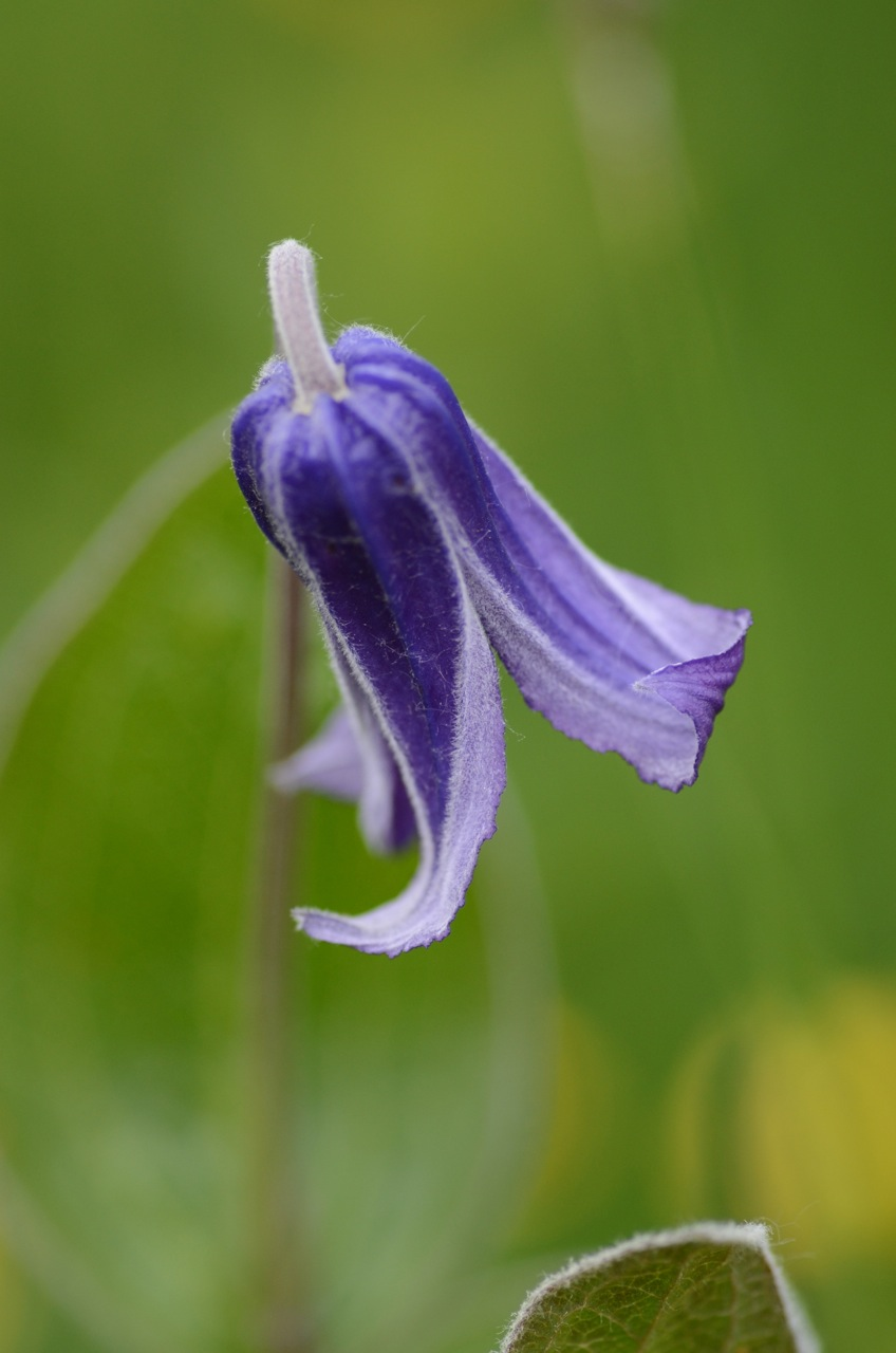 Clematis integrifolia